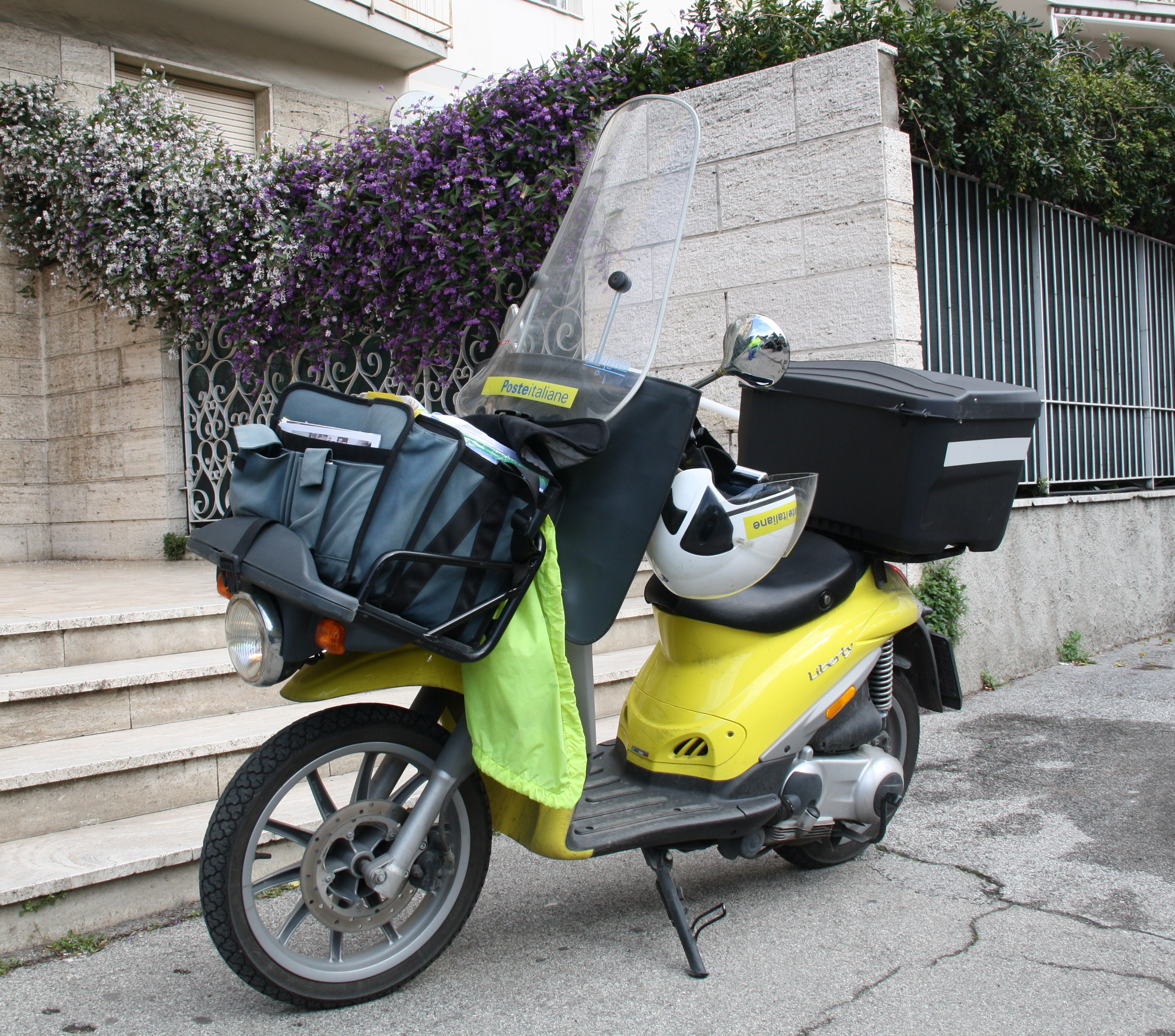 Italy, Poste Italiane, Piaggio Liberty. The yellow scooter is the means used daily by Italian postmen to deliver the correspondence.